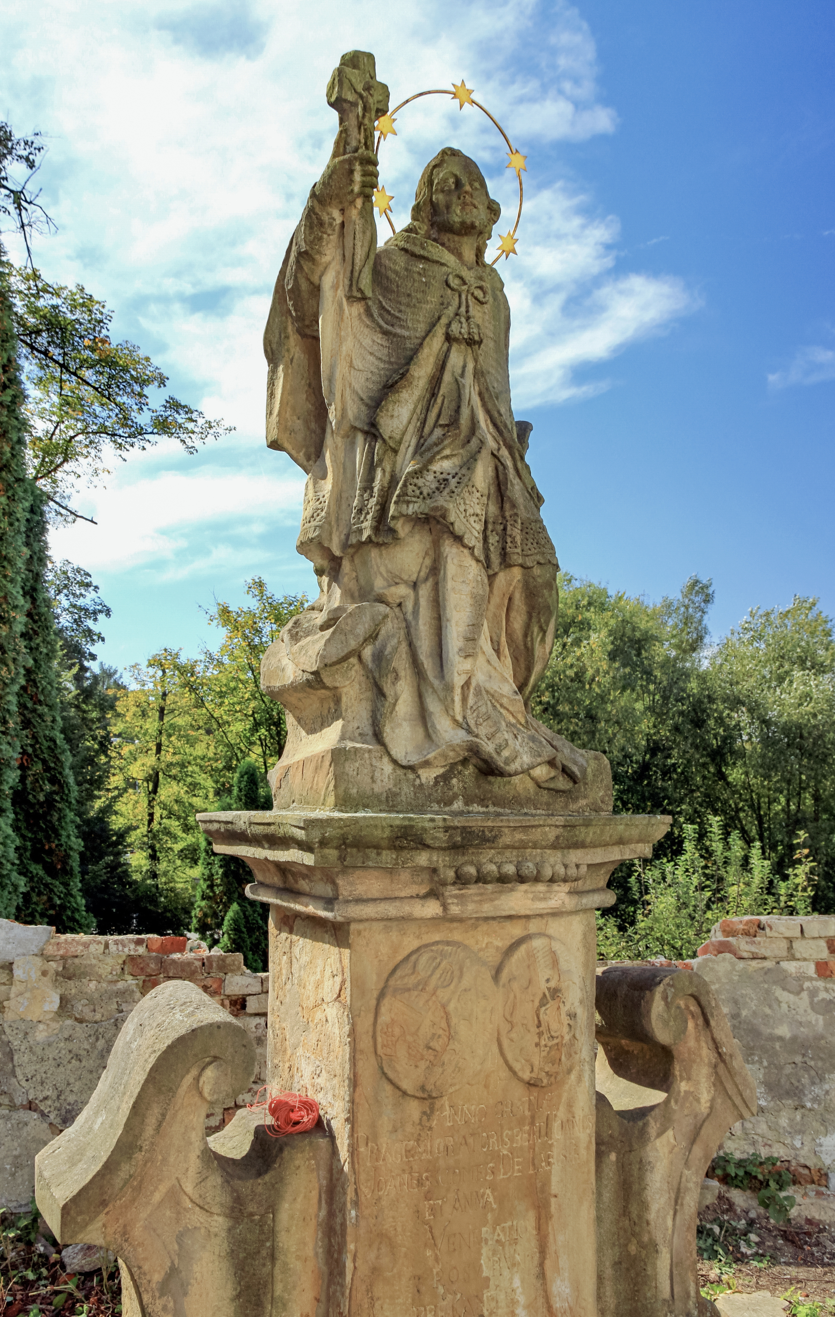 Statue of St. John of Nepomuk, Fryštát. Karviná, Moravian-Silesian Region, Czech Republic.